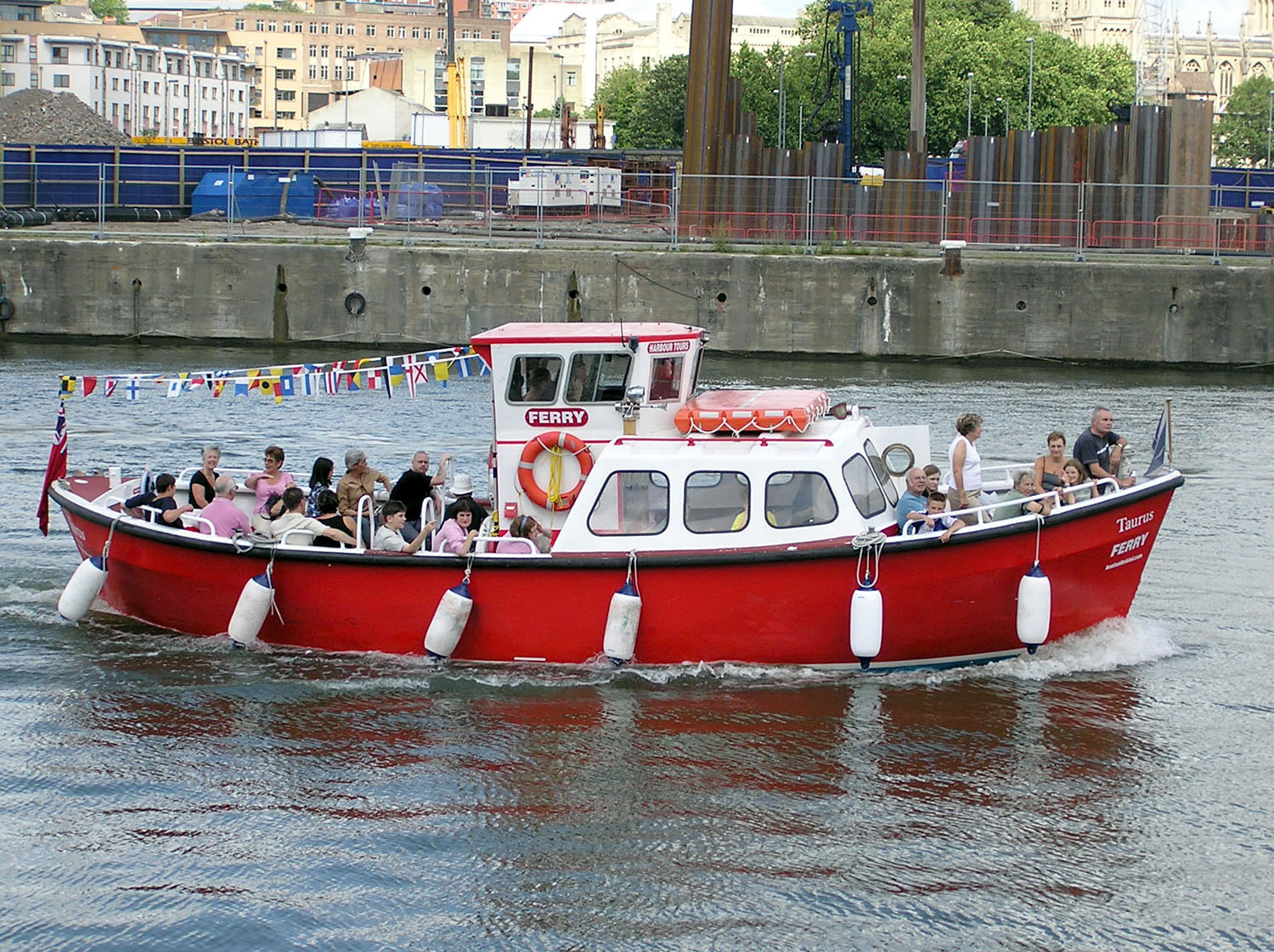 A ferry connects parts of Bristol harbour, Bristol, England.